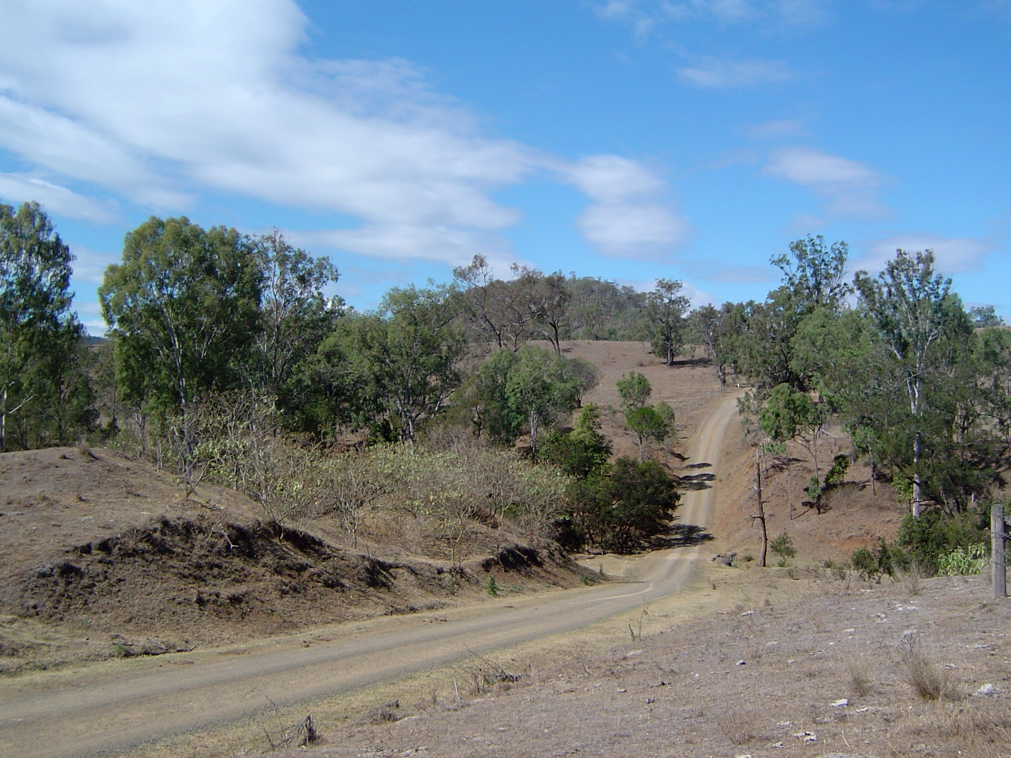 Photo of gully and England Creek Banks Creek Road at Banks Creek, Somerset Region, Queensland, Australia.